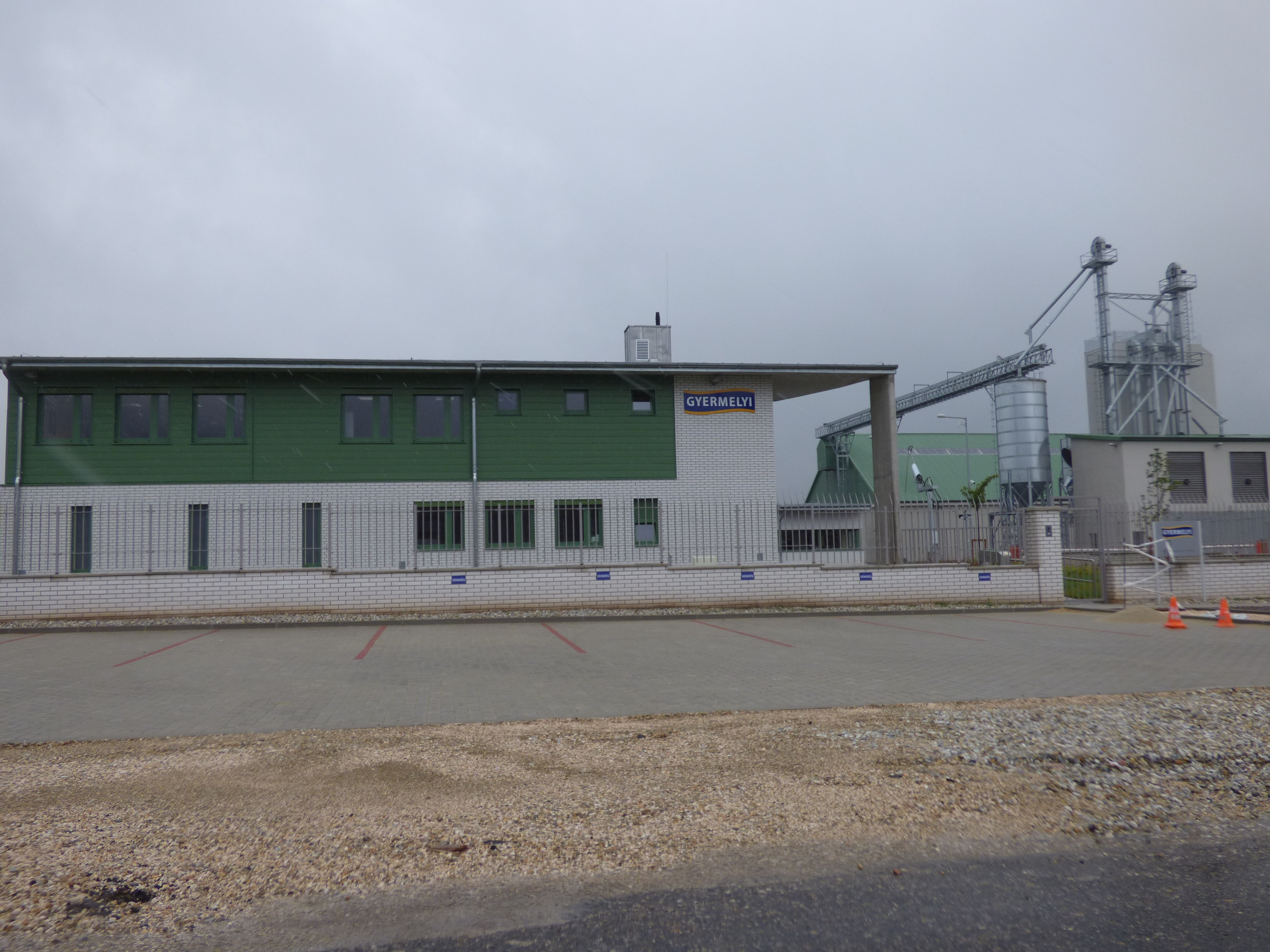 A Gyermelyi Zrt. somodorpusztai üzemének részlete